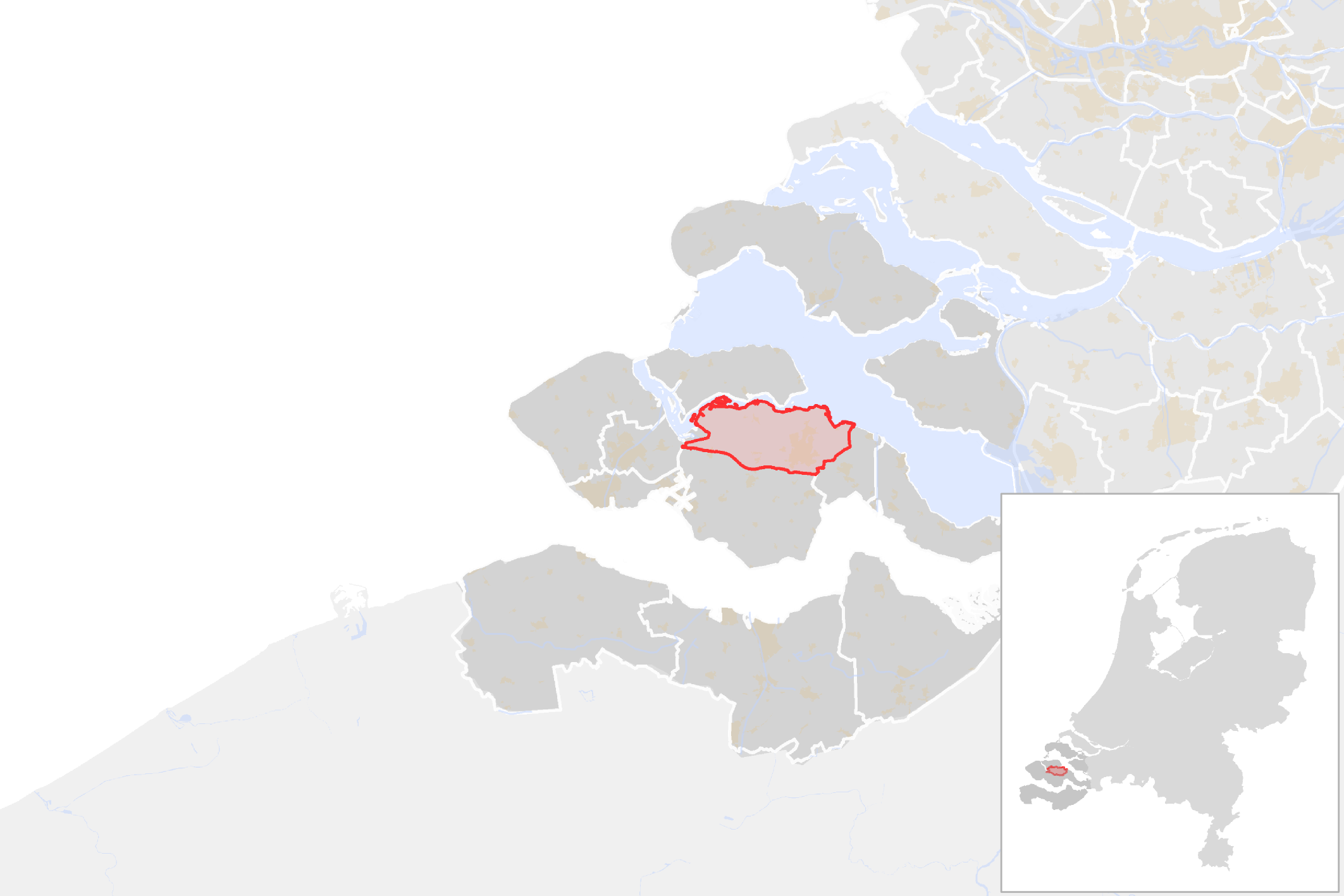 Locator map showing municipality boundary of one of the 390 Dutch municipalities (as of 2016)